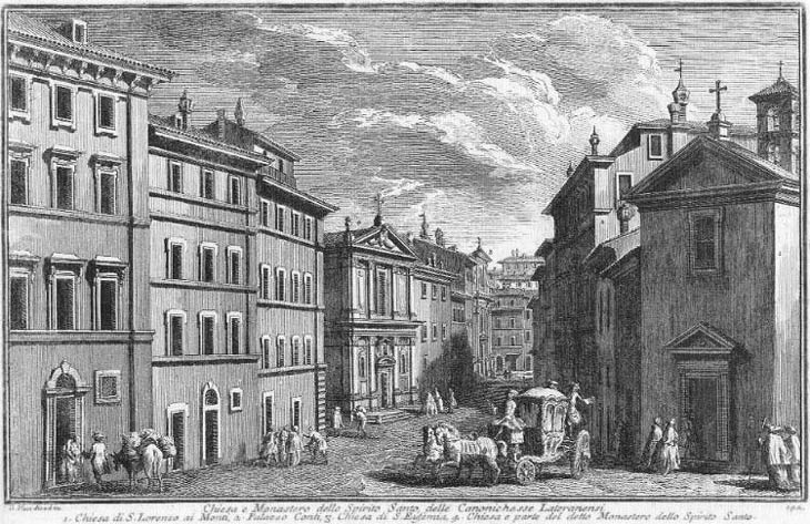 1) S. Lorenzo ai Monti; 2) Palazzo Conti; 3) S. Eufemia; 4) Spirito Santo.